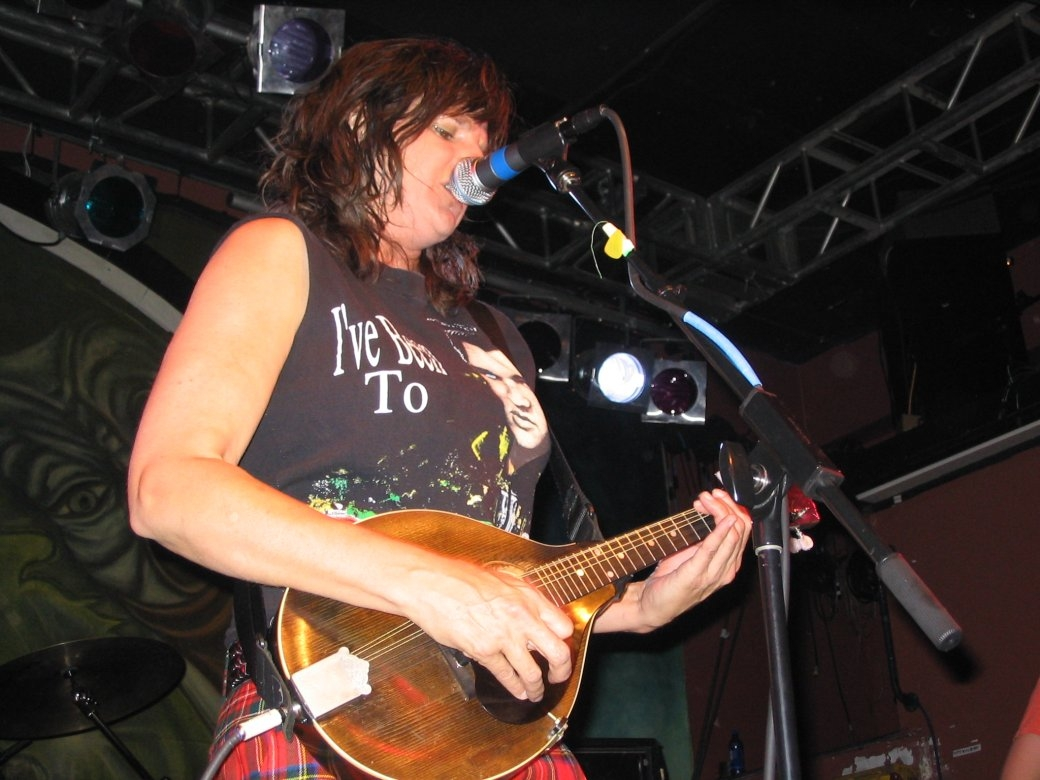 American musician Amy Ray.